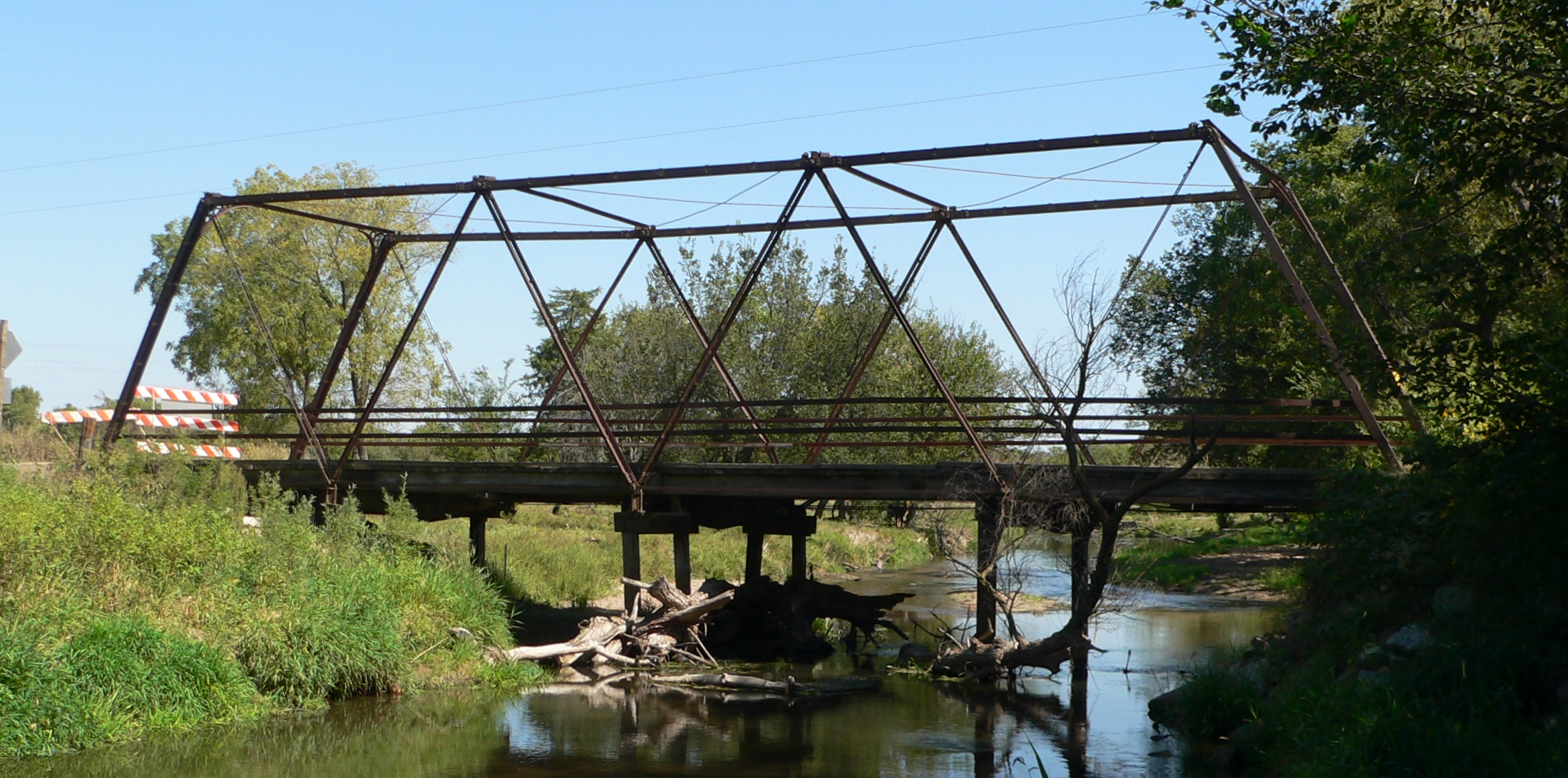 Clear Creek Bridge; seen from the west (upstream). The bridge is located in Butler County, Nebraska, where county road BC crosses the creek, northwest of Bellwood, Nebraska. The bridge was built in 1891, and is listed in the National Register of Historic Places.